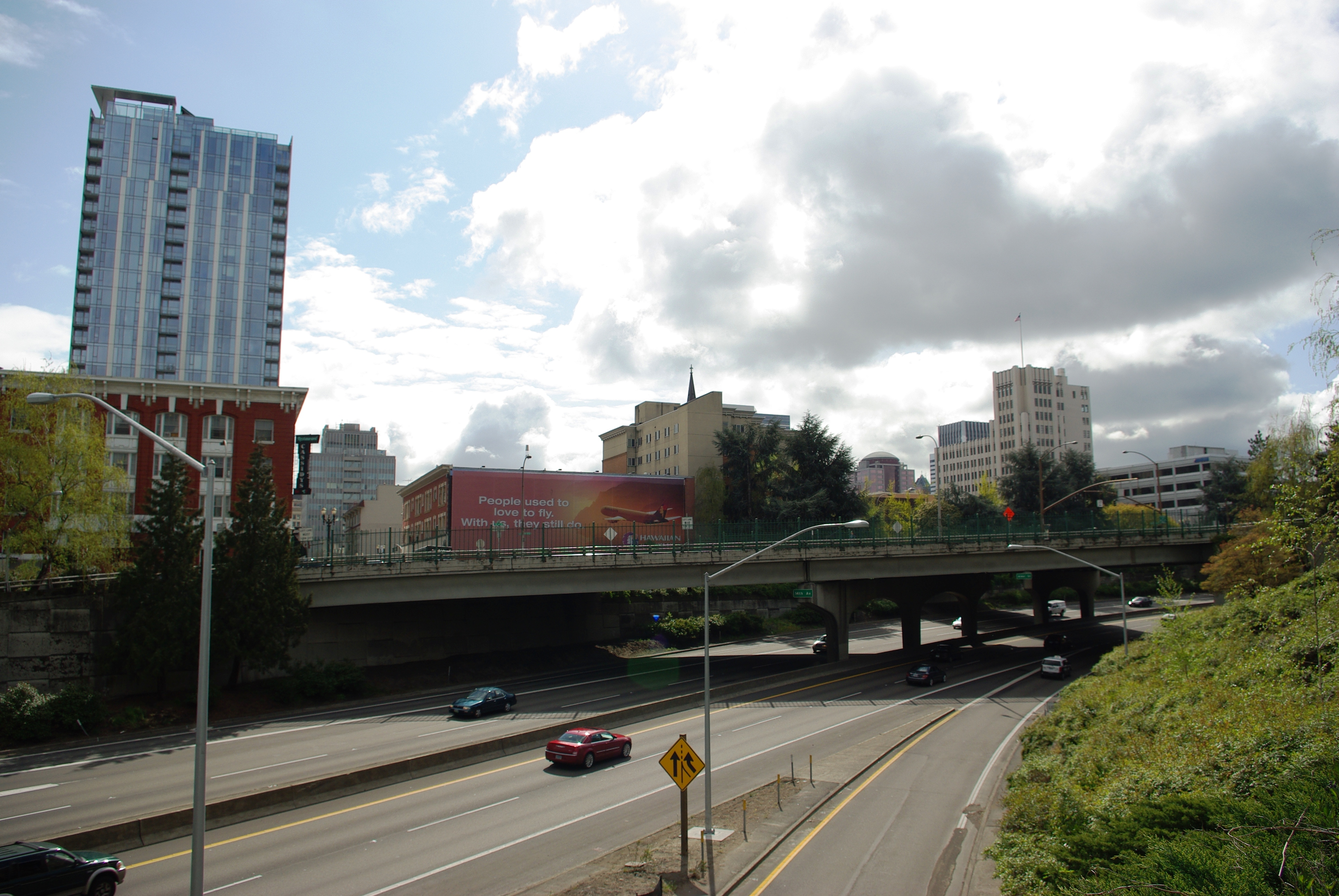 Interstate 405 at Burnside Street looking north.